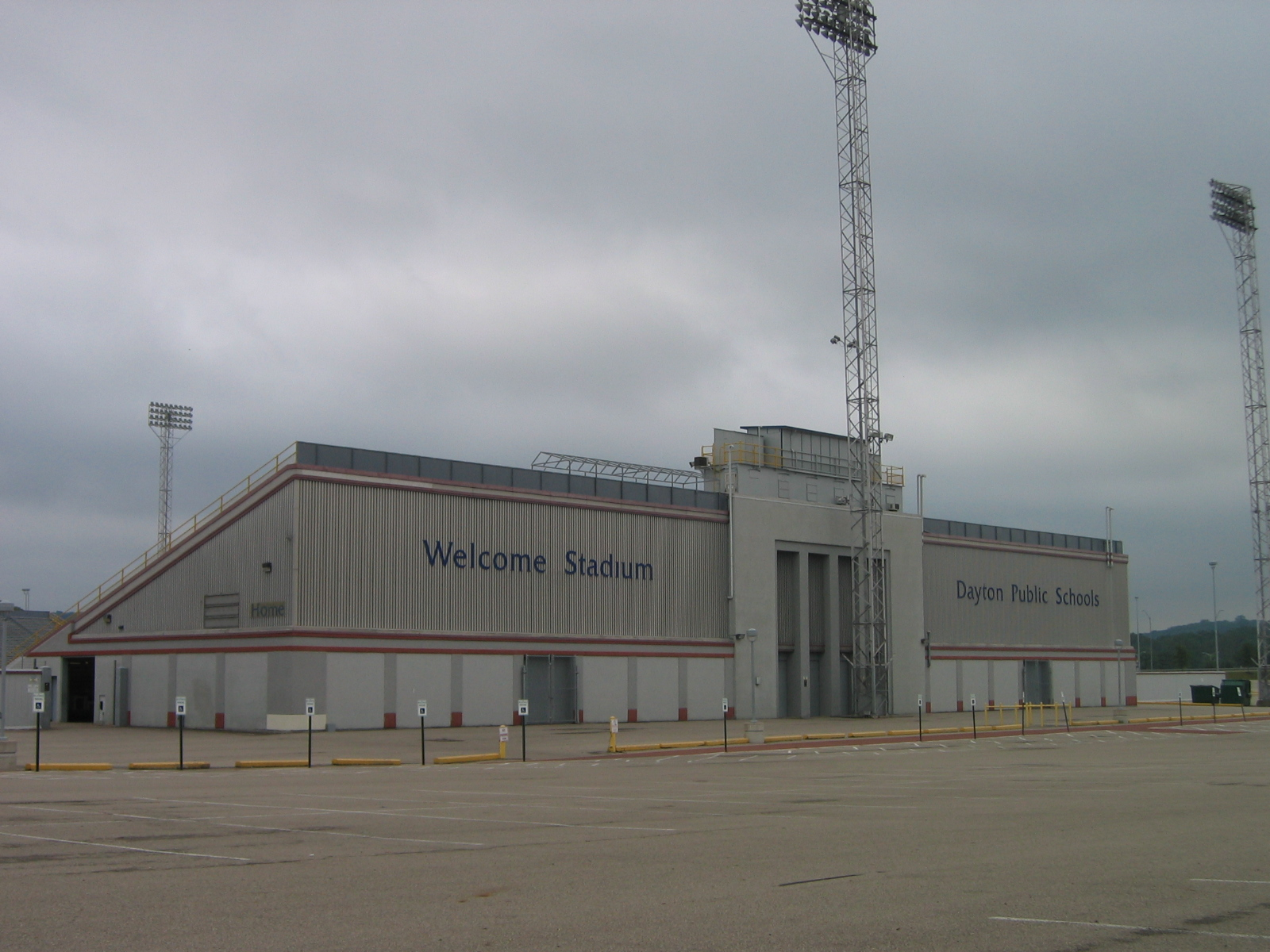 Football & Basketball Facilities Dayton Public Stadium